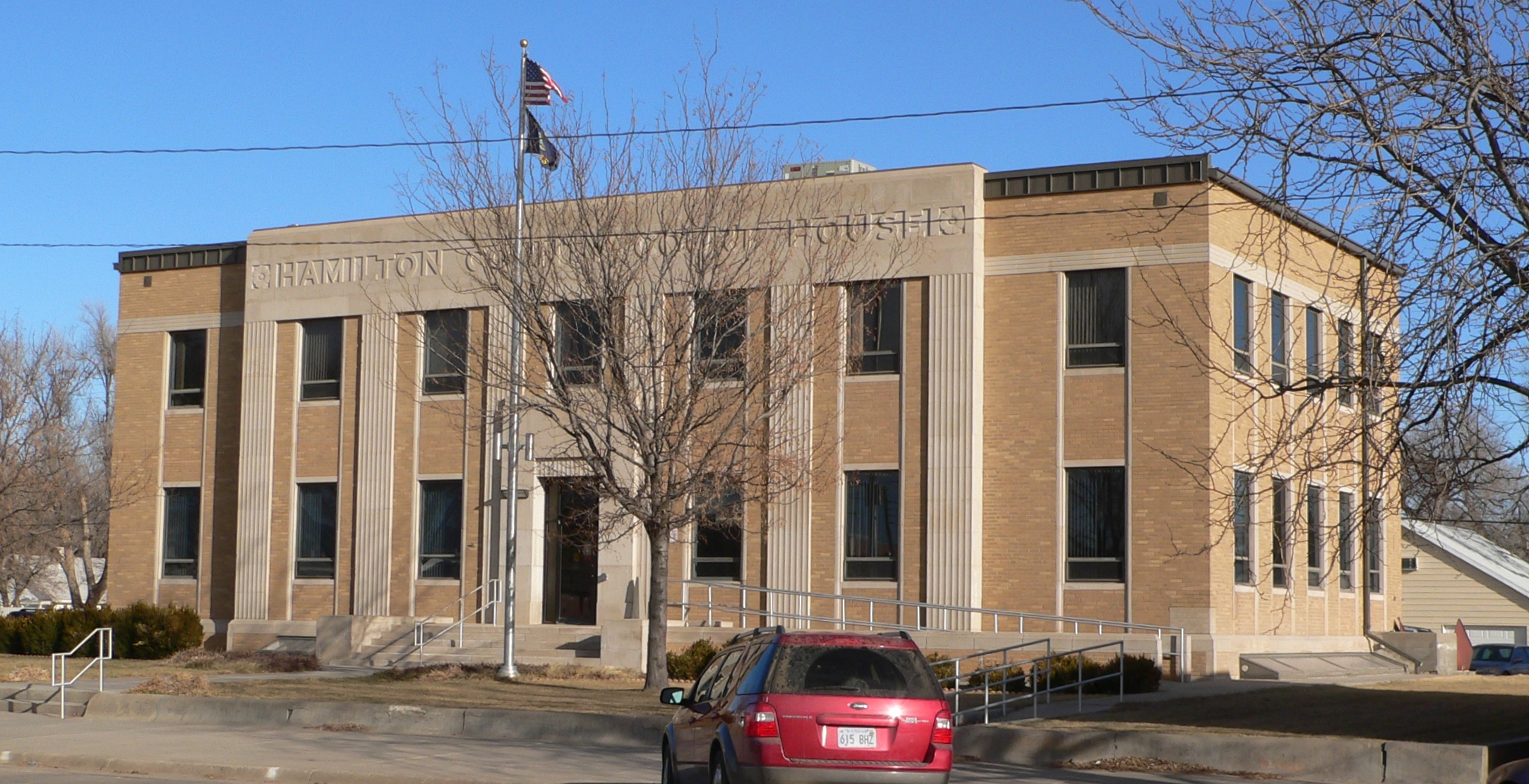 Hamilton County courthouse in Syracuse, Kansas; seen from the southwest. The Art Deco building was designed by architects Overend & Boucher, and built in 1937.